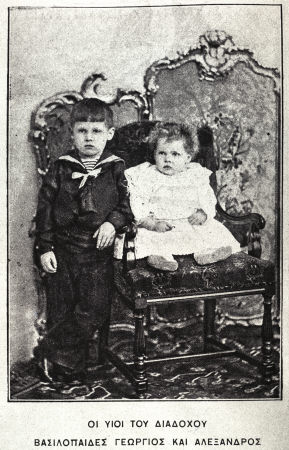 Alexander I and George II of Greece, in their youth